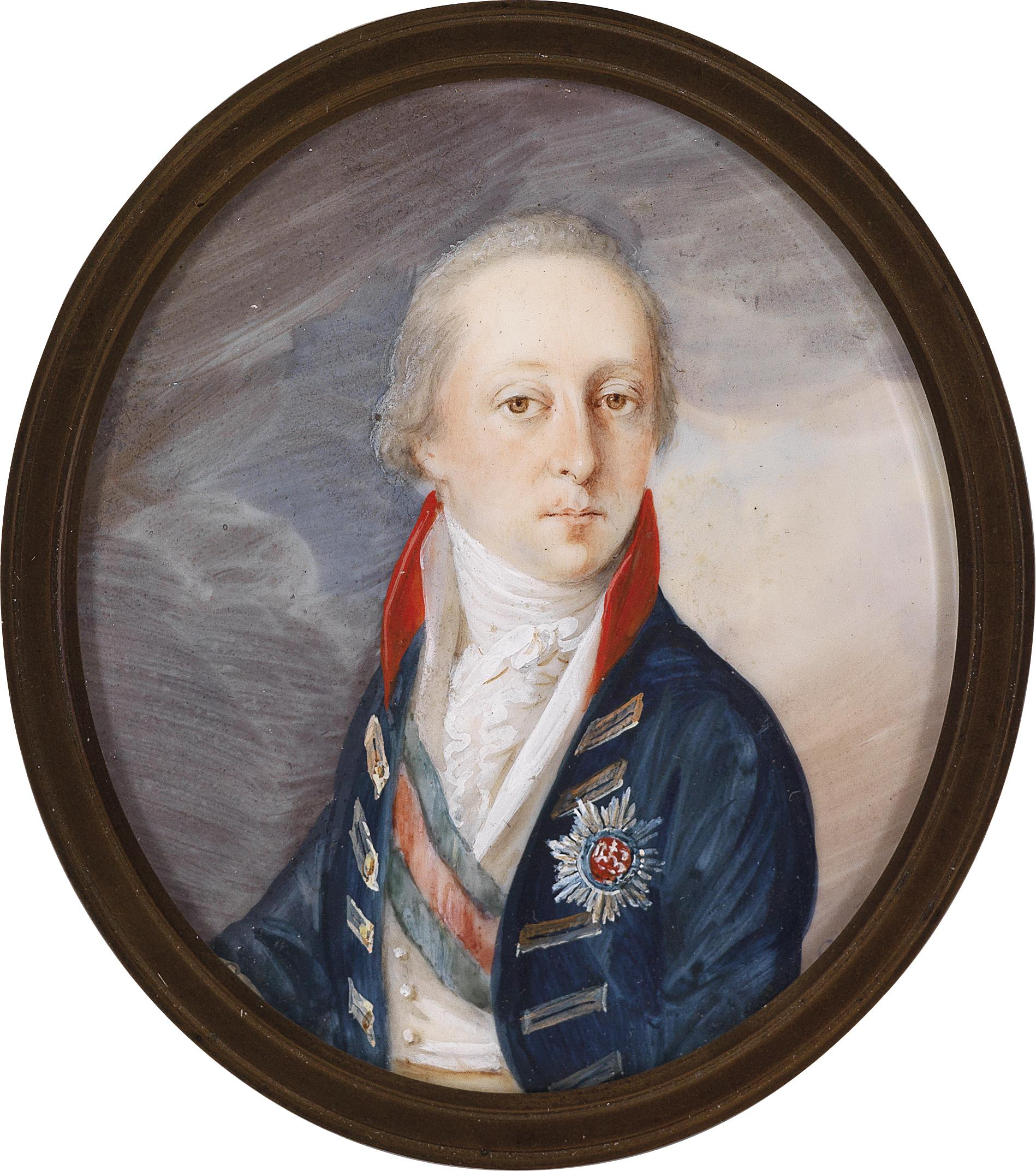 Prince Nicholas II Esterházy